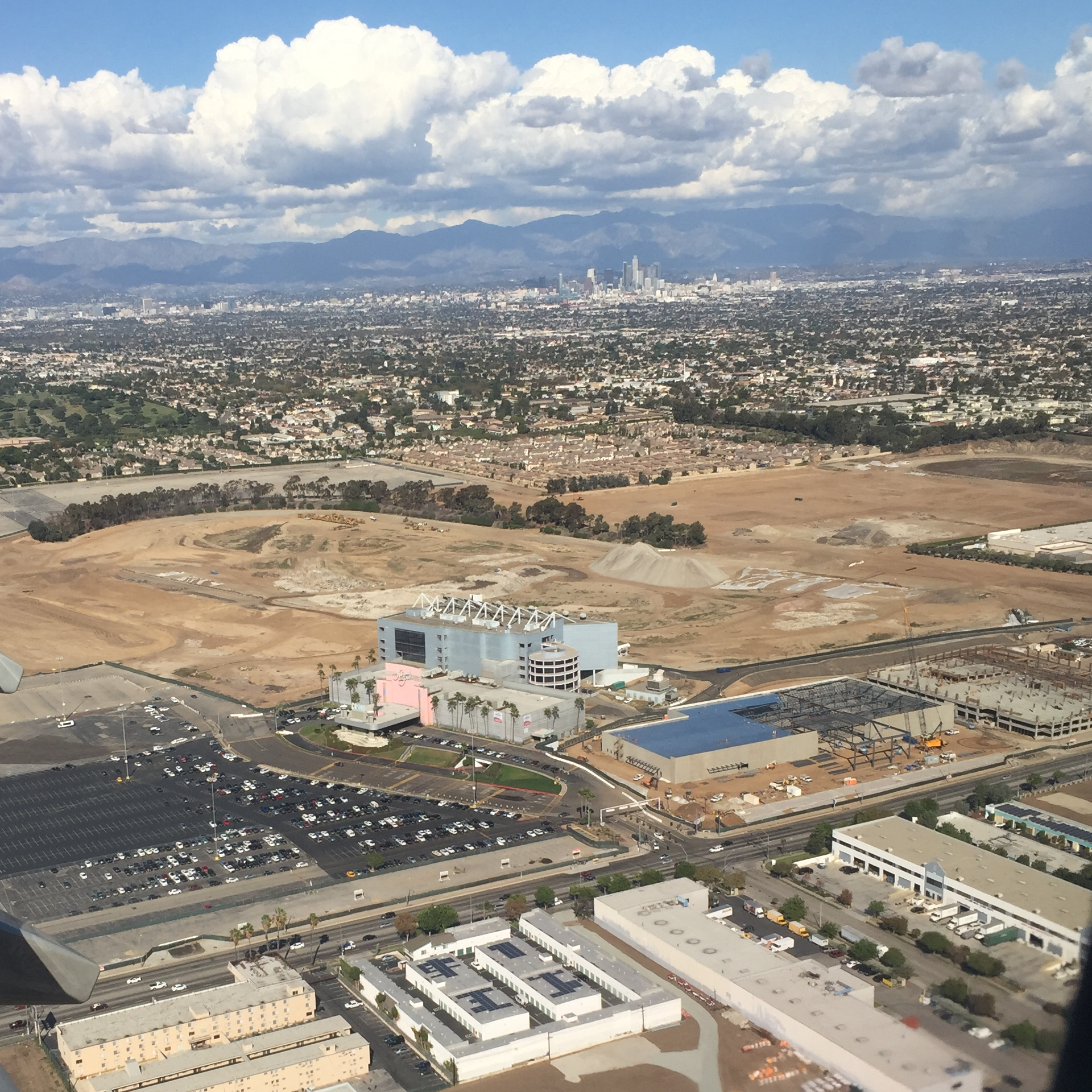 Location of the former Hollywood Park Racetrack, and future home to the City of Champions Stadium.